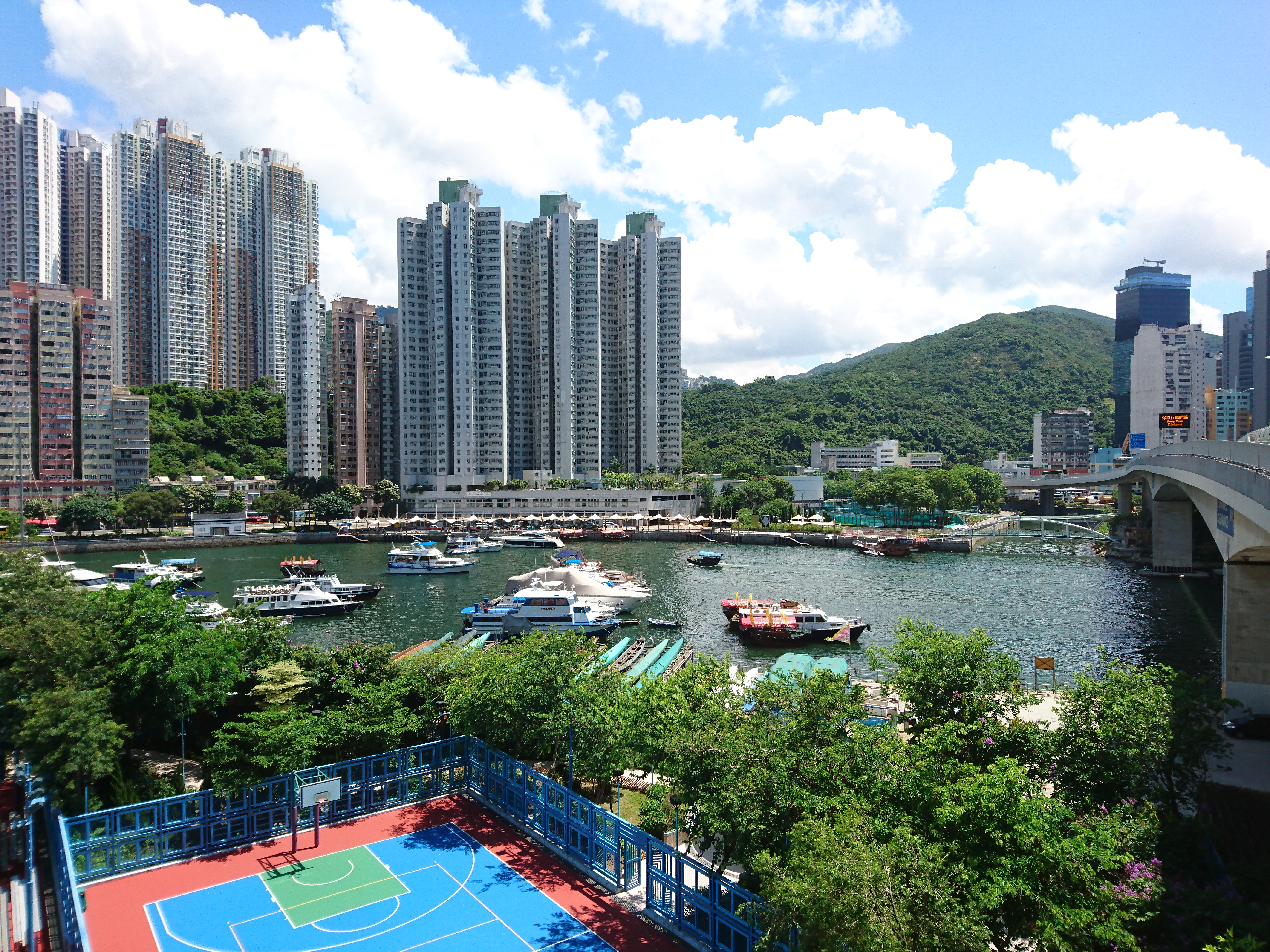 Aberdeen Chung Mei